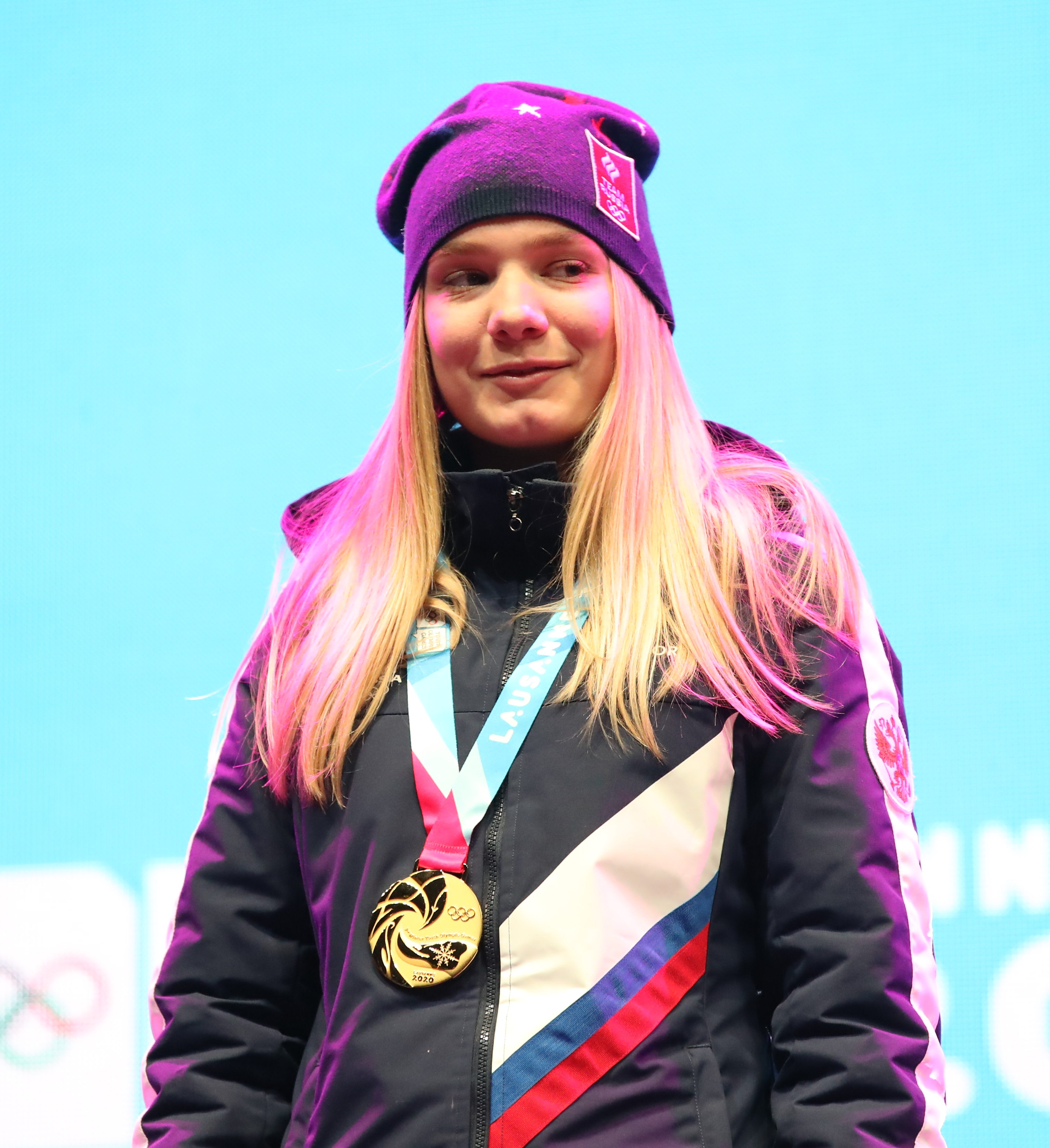 Medal Ceremony Day 5, 2020 Winter Youth Olympics in Lausanne